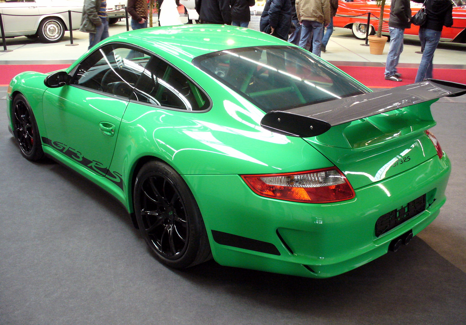 Porsche 997 GT3 RS with integrated roll cage.